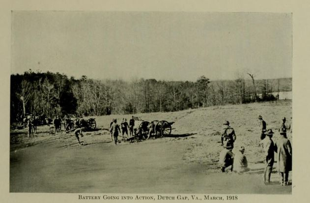 Picture of soldiers from the 80th US Division performing artillery practice near Dutch Gap in 1918.